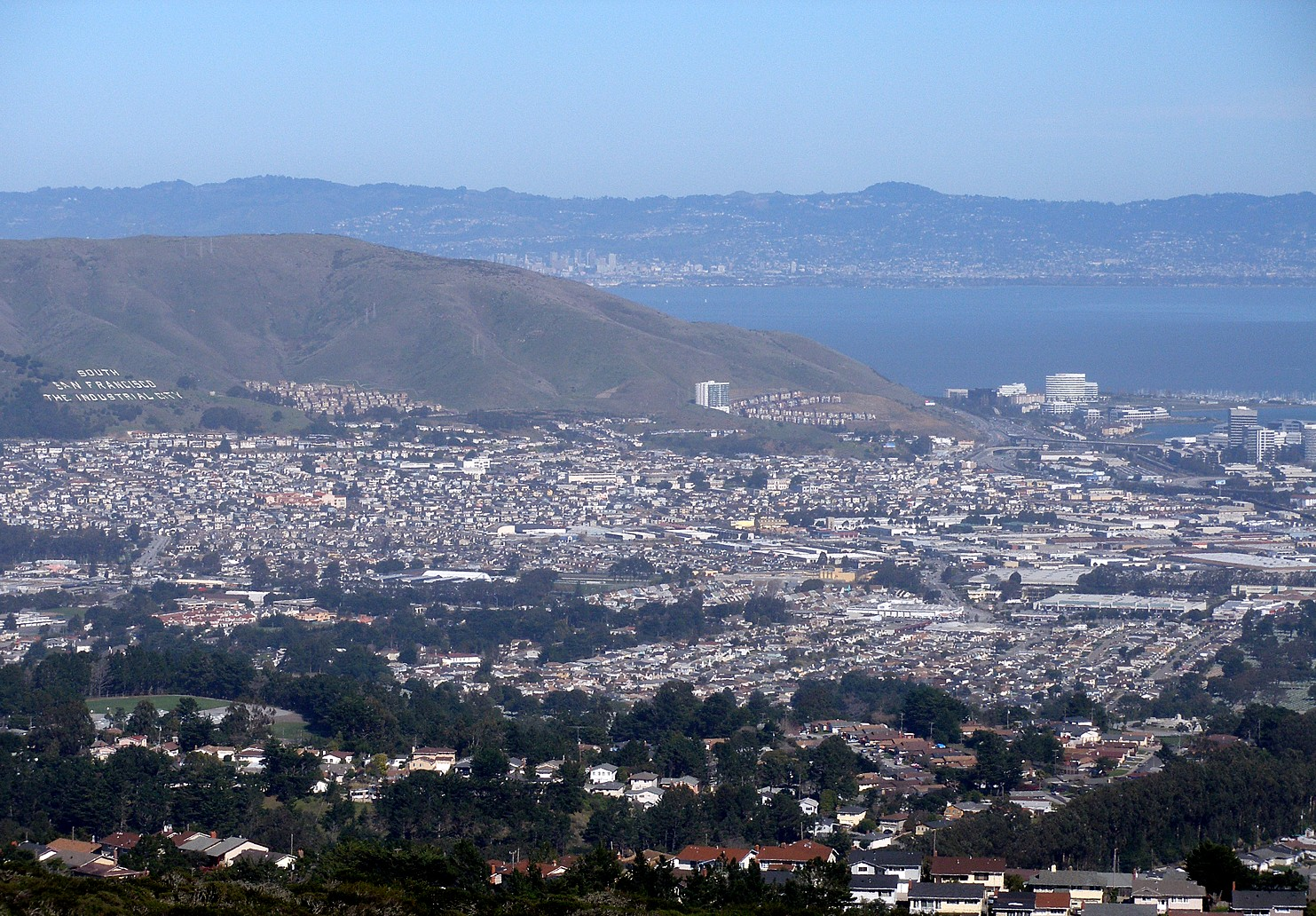 The city of South San Francisco, California, as viewed from nearby Sweeney Ridge in the Golden Gate National Recreation Area.